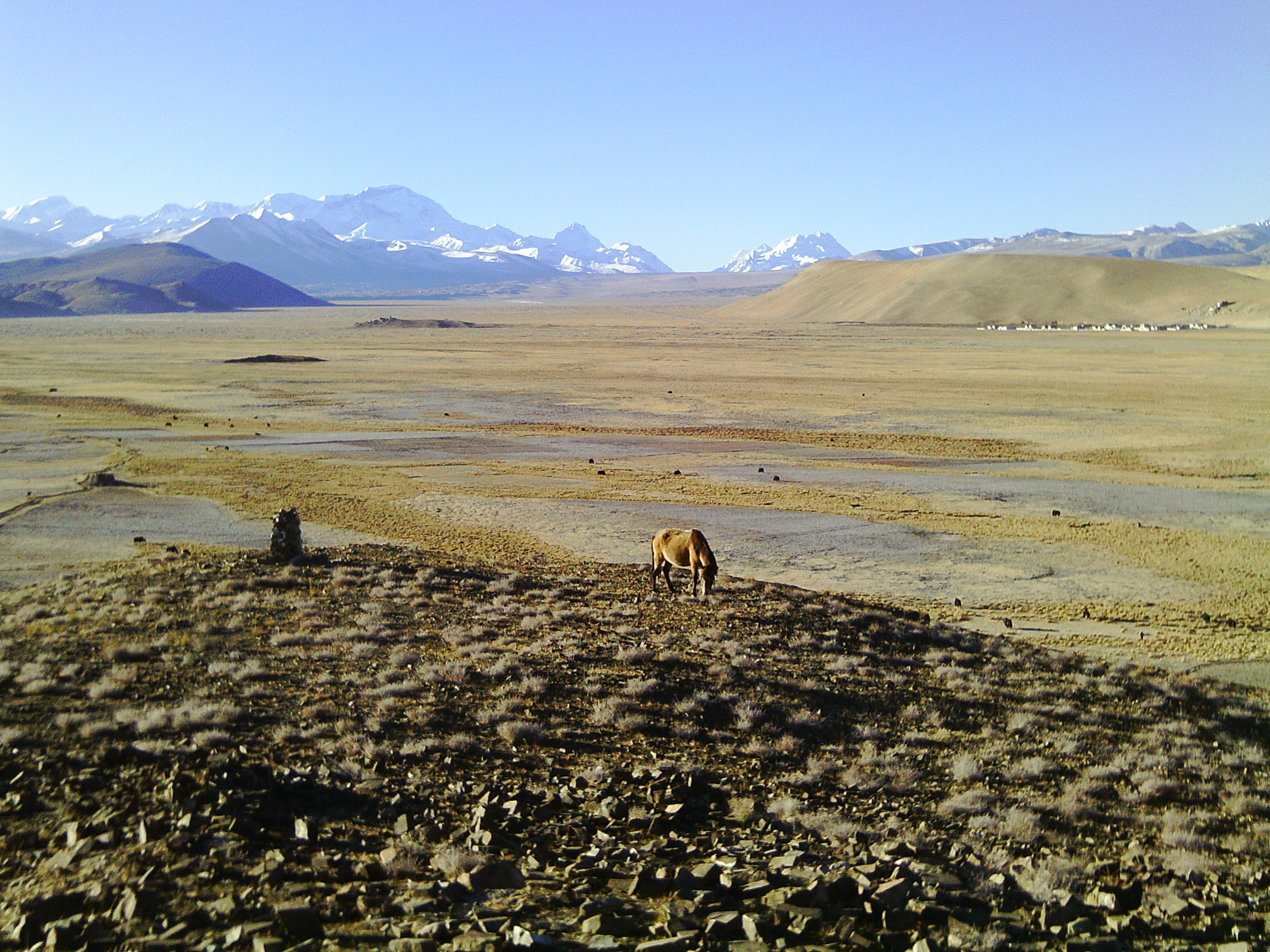 Went for a walk one morning after waking up in Tibet. What I would give to just be back there.